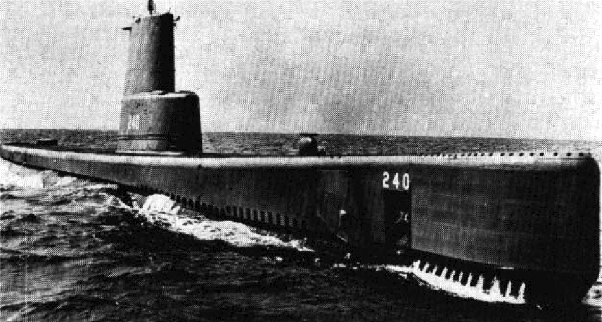 The U.S. Navy submarine USS Angler (SSK-240) following her conversion to a hunter-killer-submarine. Following her recommissioning on 2 April 1951, Angler held shakedown in the Caribbean Sea. She then began operations from her home port of New London. In October 1952, Angler was decommissioned and entered the General Dynamics Corporation yard at Groton, Connecticut (USA), for overhaul and conversion. During the overhaul, one of her four diesel engines was removed to make room for advanced sonar equipment. She was redesignated SSK-240 in February 1953.